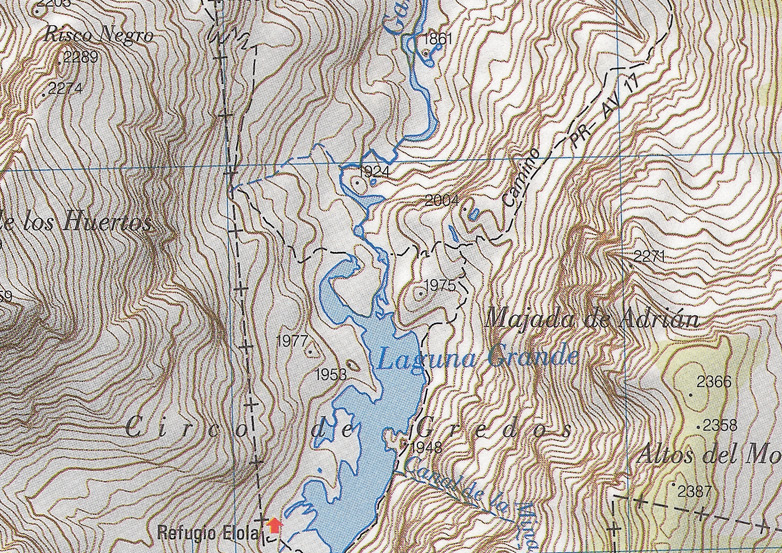 Fragment 0577c2 of the National Topographic Map of Spain in 2014 at a scale of 1:25000 printed and scanned with a resolution of 250 ppi. It shows Laguna Grande.